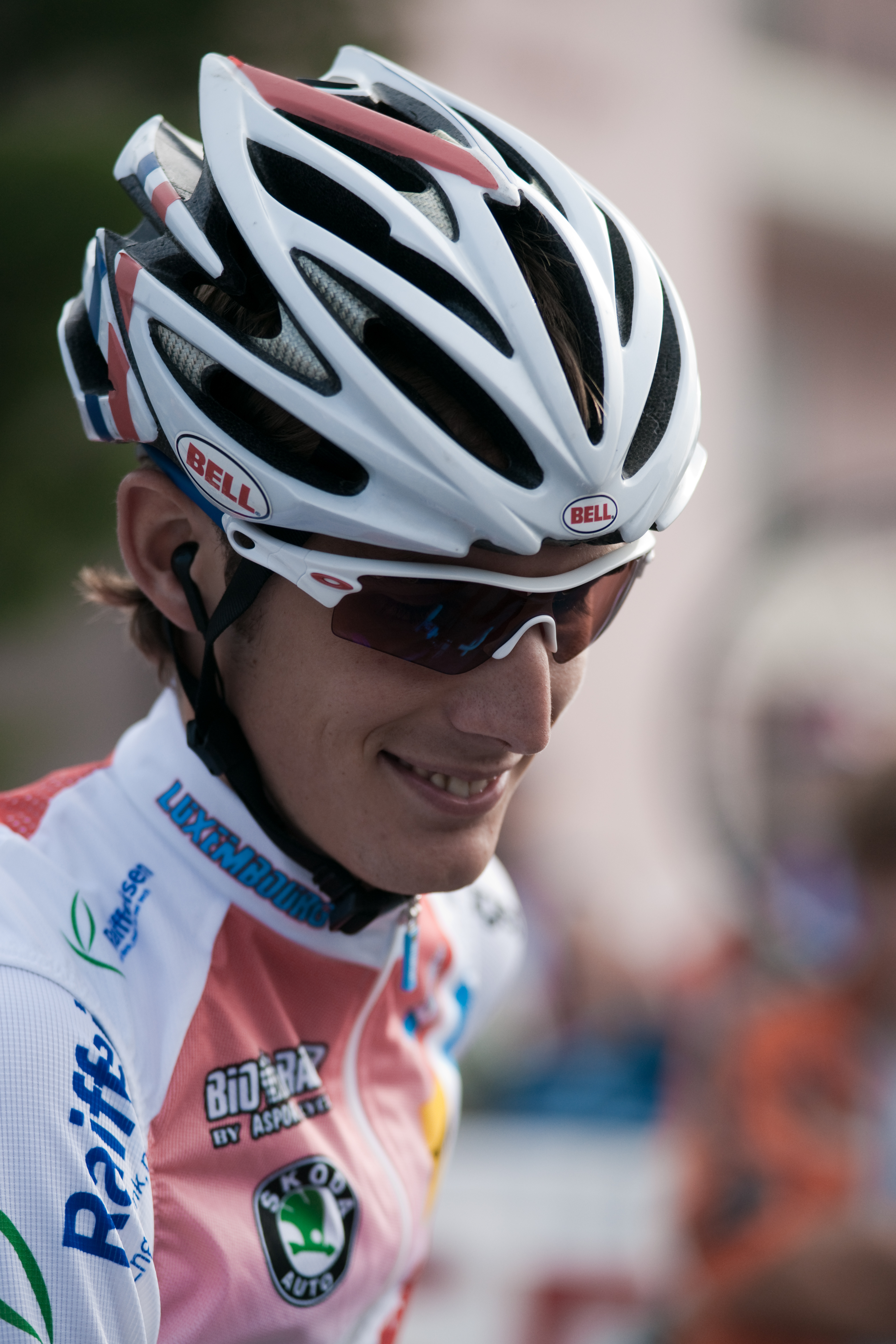 Andy Schleck during the 2009 Road World Championship in Mendrisio, Switzerland.